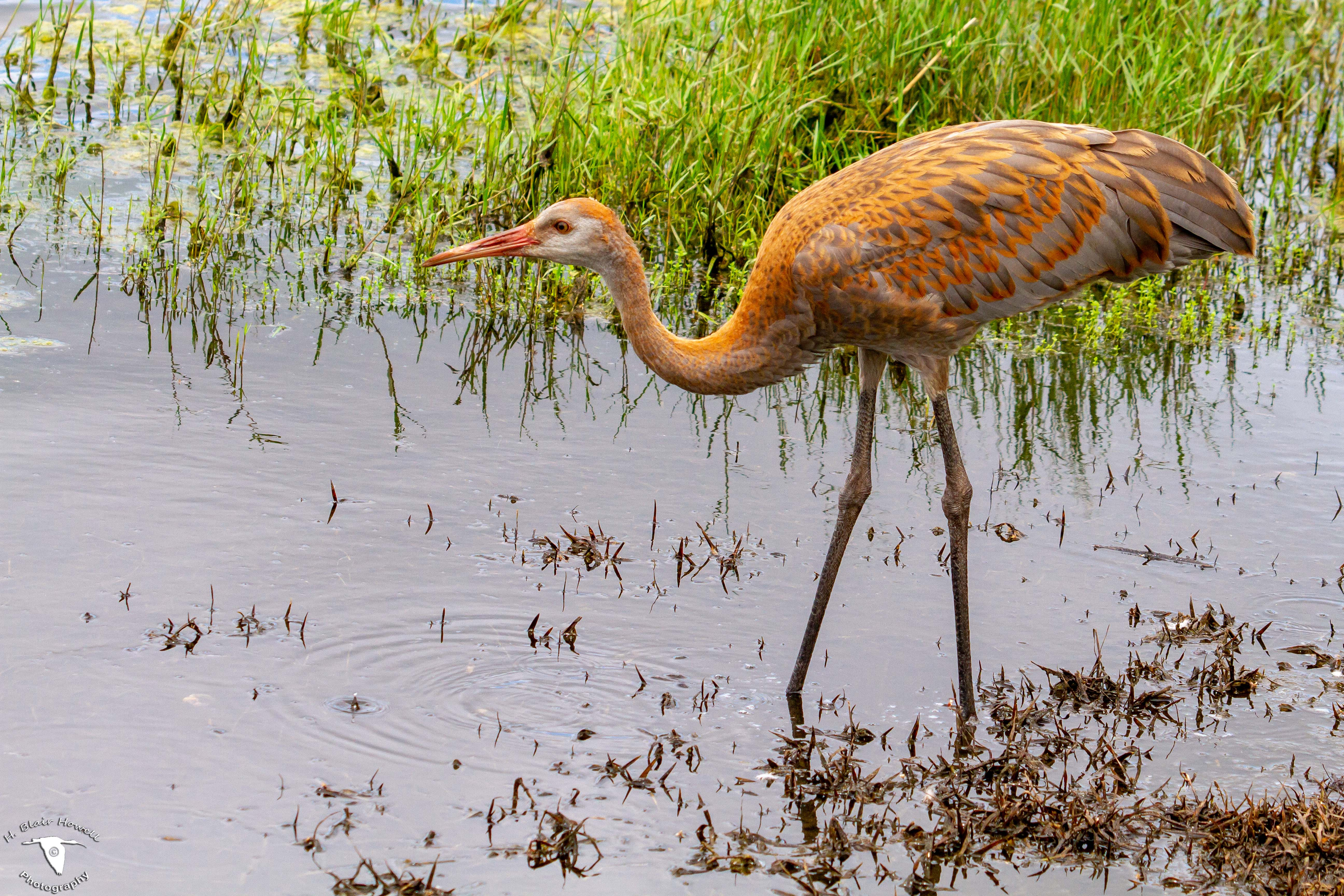 Immature Florida Sandhill Crane on the bank of Lake Cecile near Kissimmee, FL